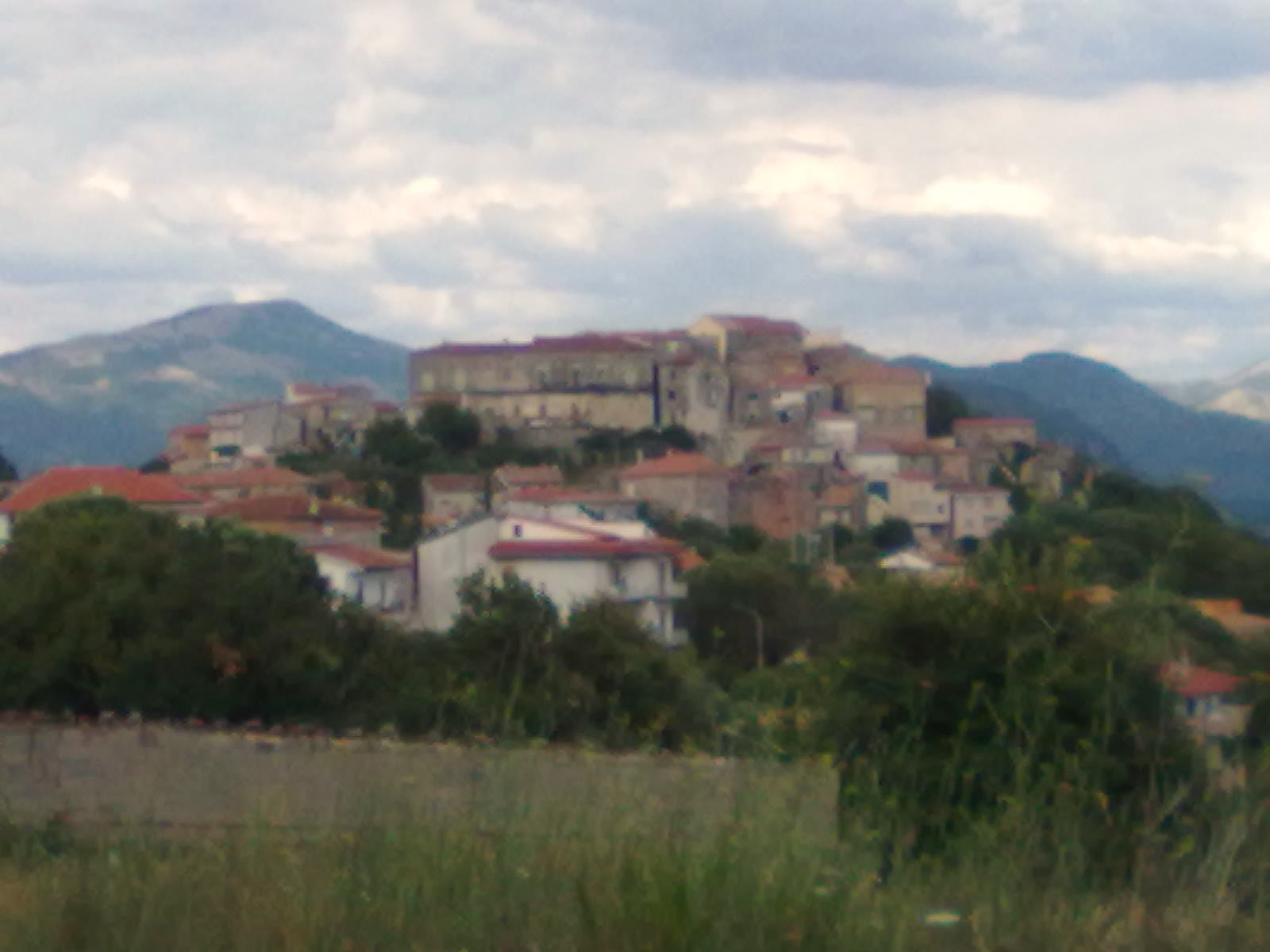 View of Castel Ruggero